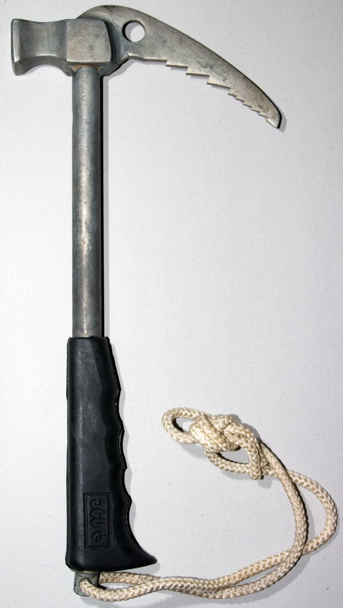 Ice Hammer.